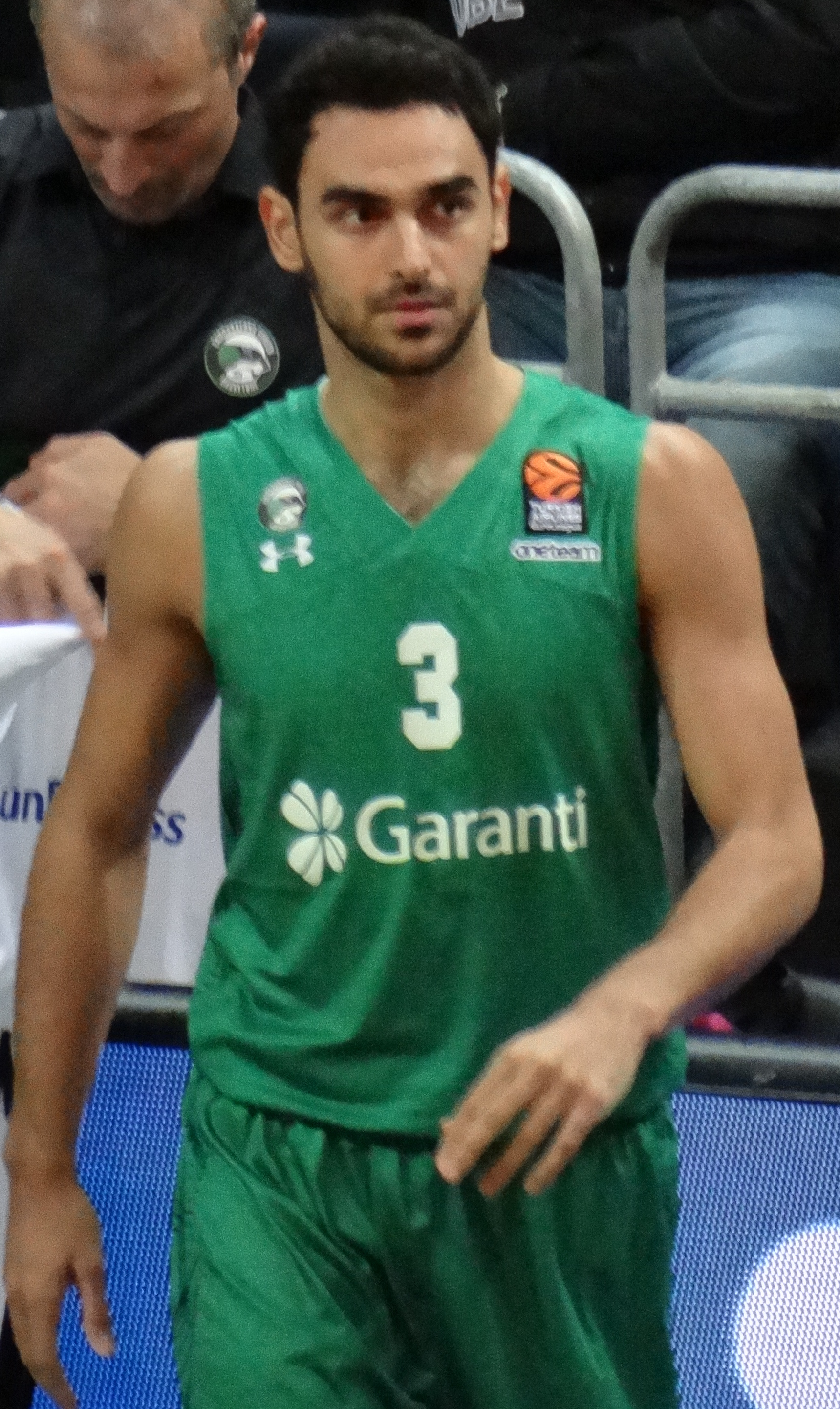 Kartal Özmızrak 3 Darüşşafaka Tekfen 20181120